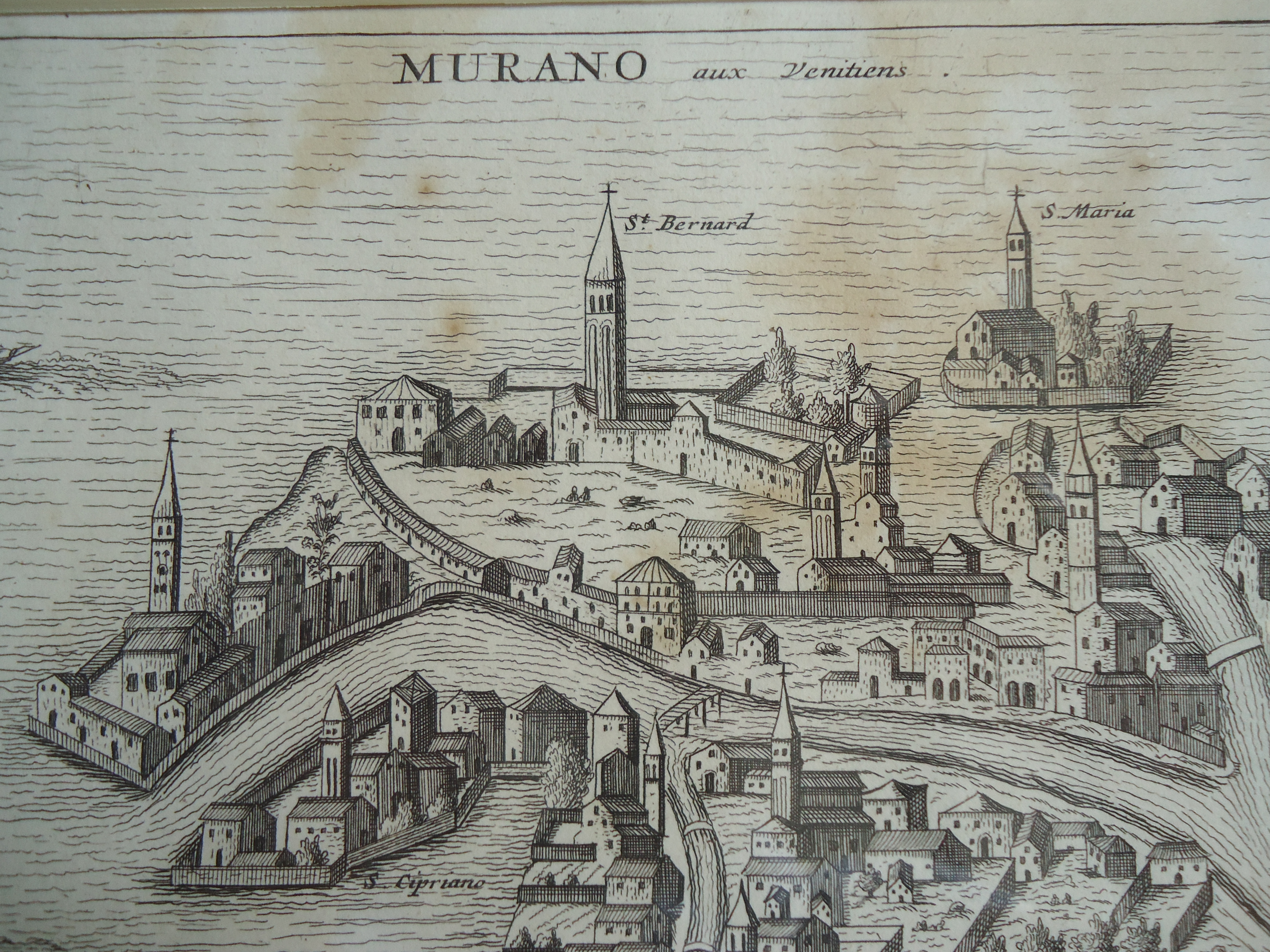 view of Murano, Lagoon of Venice due north of center, Italy